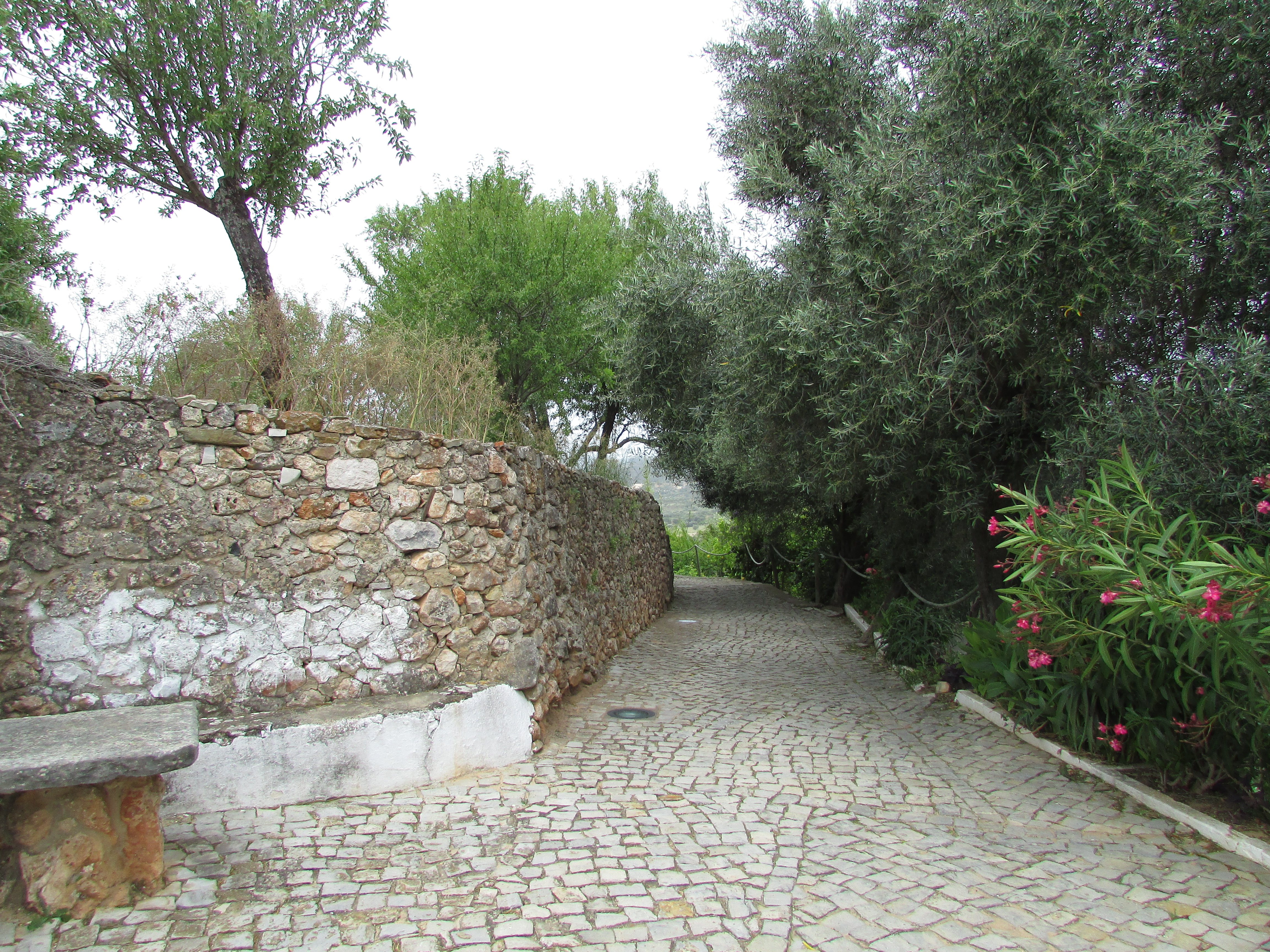 The north east corner of the castle where narrow lane called the Rua dos Muros do Castelo runs around the remains of the castle curtain walls. The castle is located in the village of Salir, Algarve, Portugal.